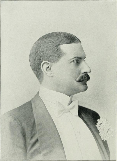 Photograph of Robert Hillard aka "Handsome Bob", American stage actor